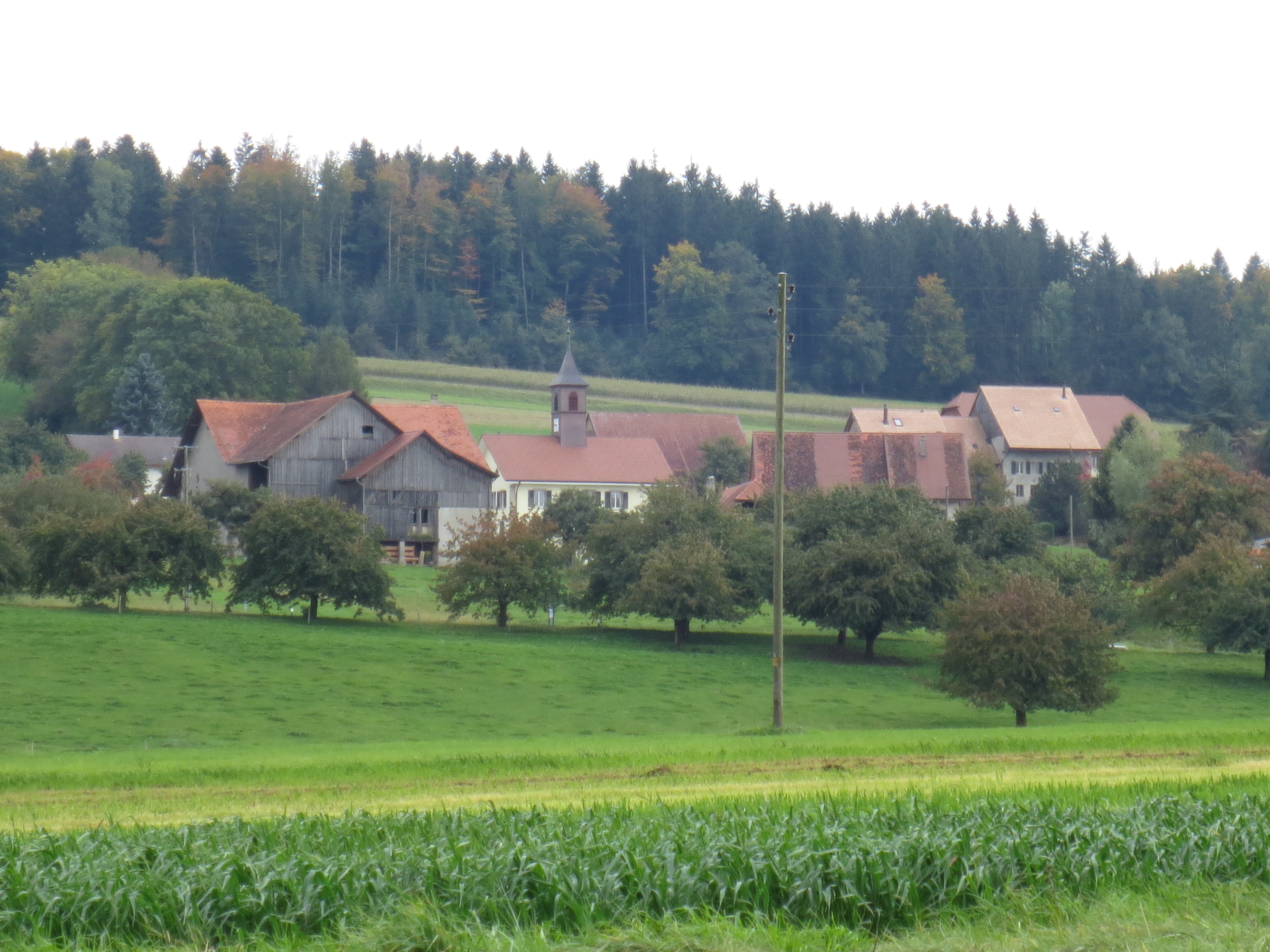 Villars-Bramard, Valbroye, Canton of Vaud, Switzerland